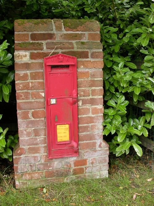 The only surviving Large № 1 Second National Standard wall-mounted post box, Wickhambrook, Suffolk